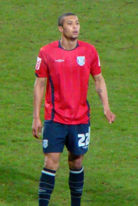 16/02/10 Cardiff V West Brom, Championship, Cardiff City Stadium, Cardiff, Wales